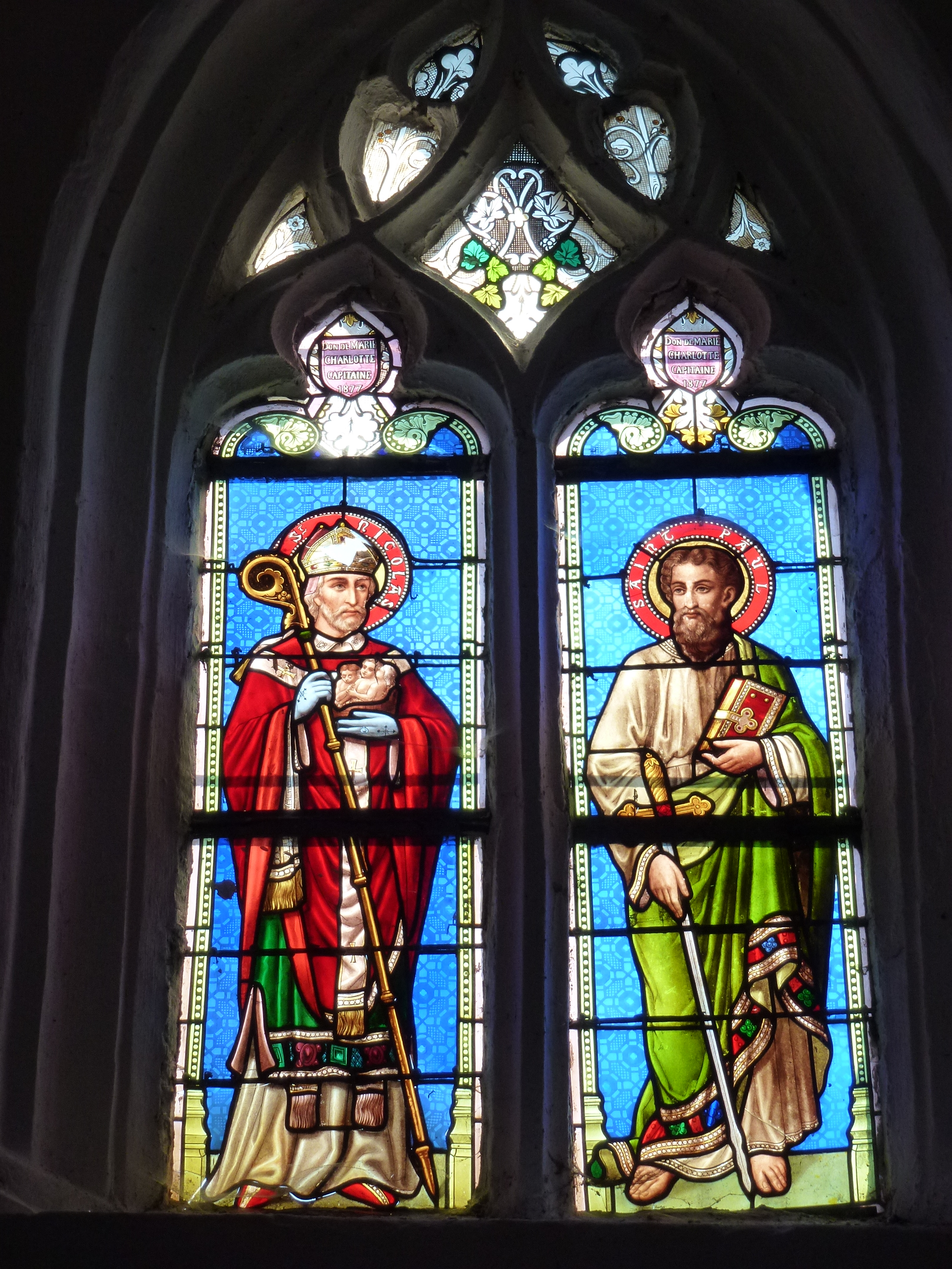 Puiseux (Ardennes) église, vitrail 04